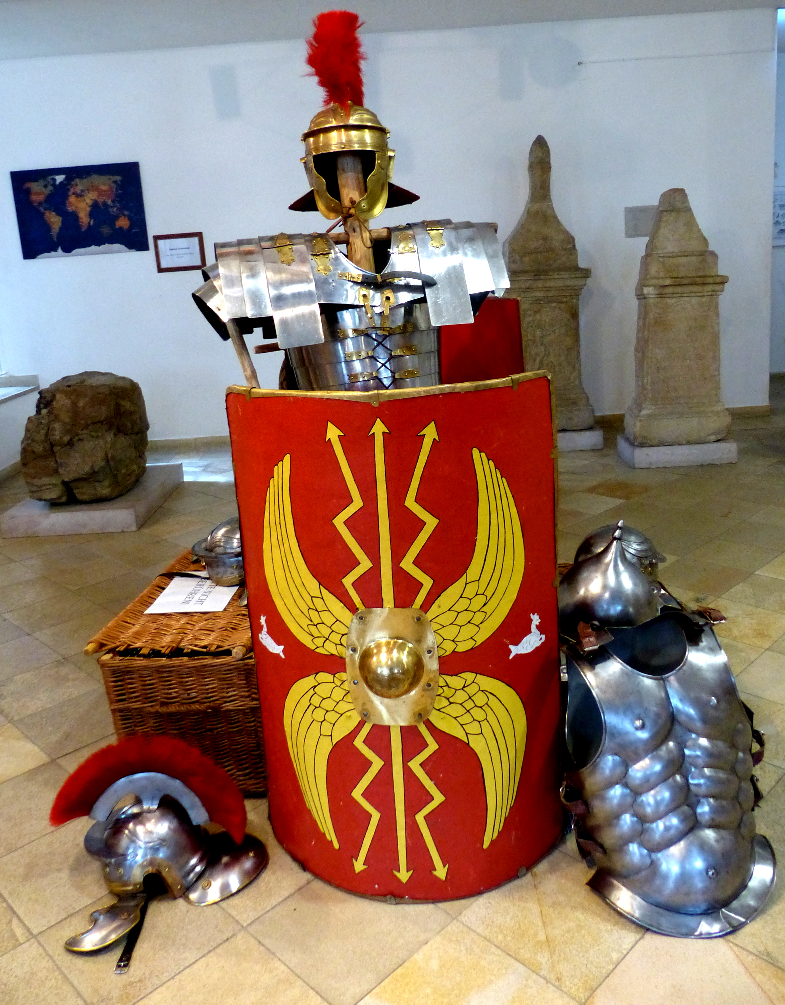 Seebruck (Upper Bavaria). Ancient Roman museum Bedaium: Ancient Roman armour (reconstruction )